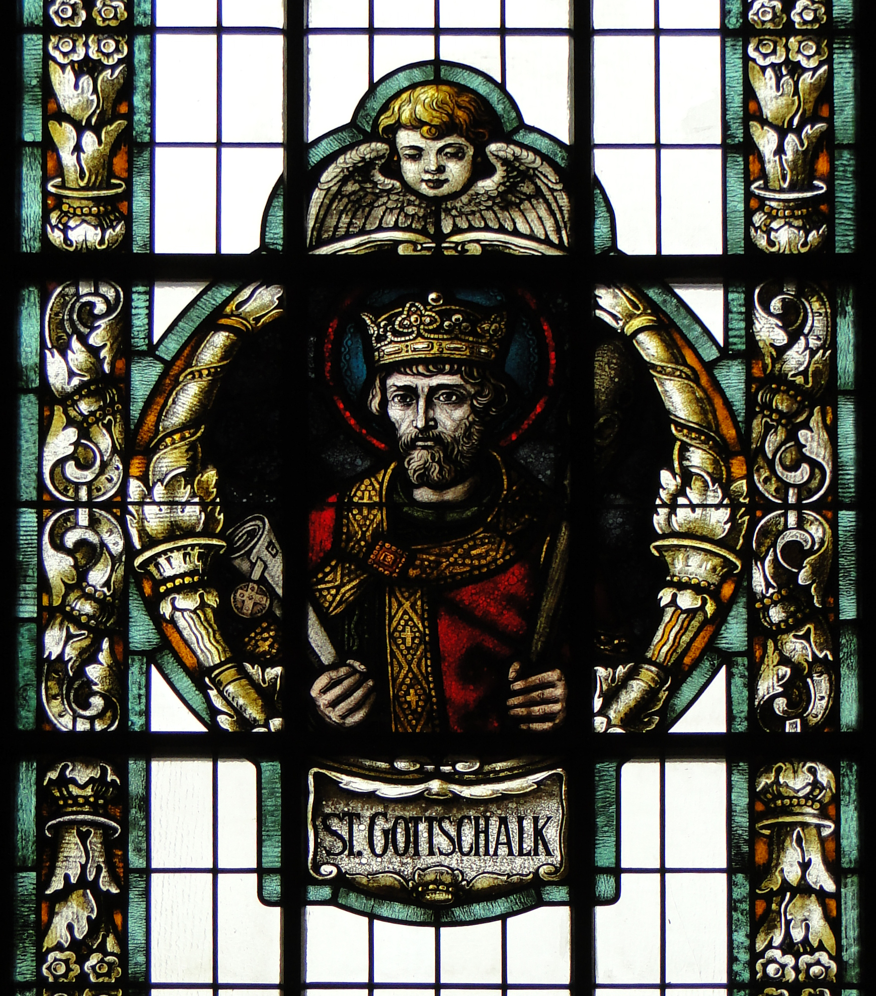 Stained glass window St. Gottschalk of Church St. Anna in Schwerin, Mecklenburg-Vorpommern, Germany